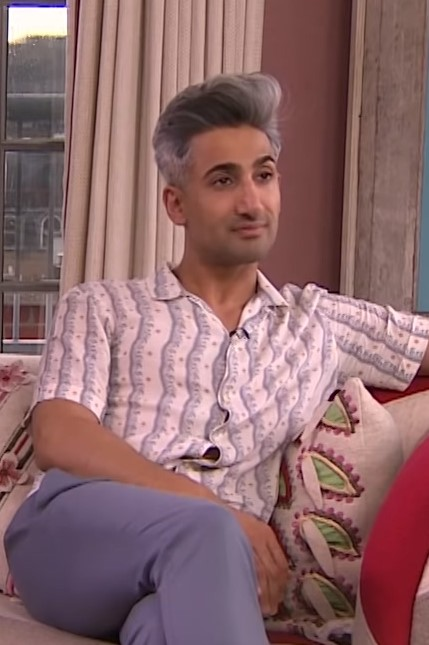 Tan France at an MTV International interview on June 2018.